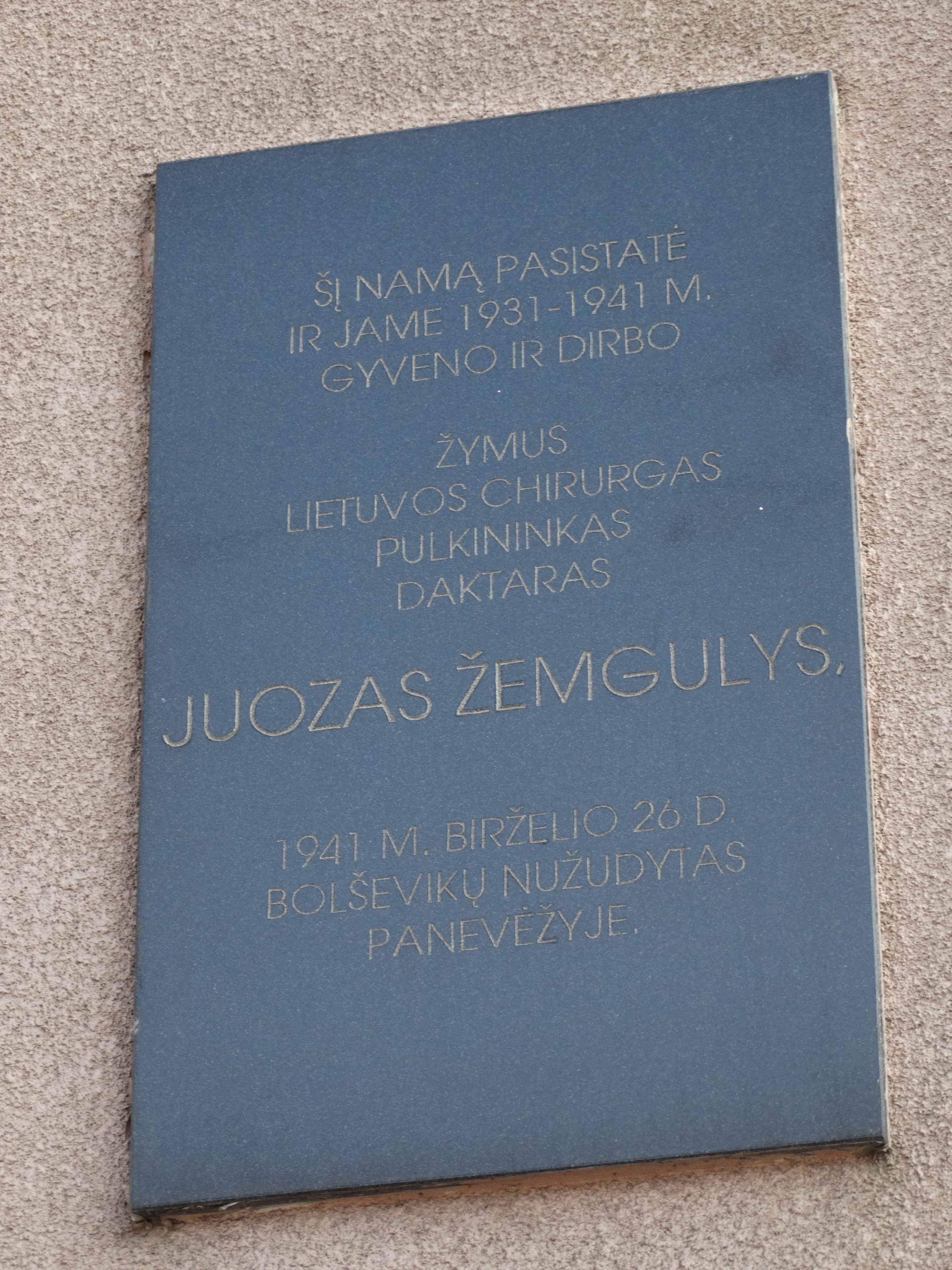 Memorial plaque to Juozas Žemgulys, Kaunas, Lithuania